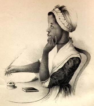 Phillis Wheatley (1753-1784)